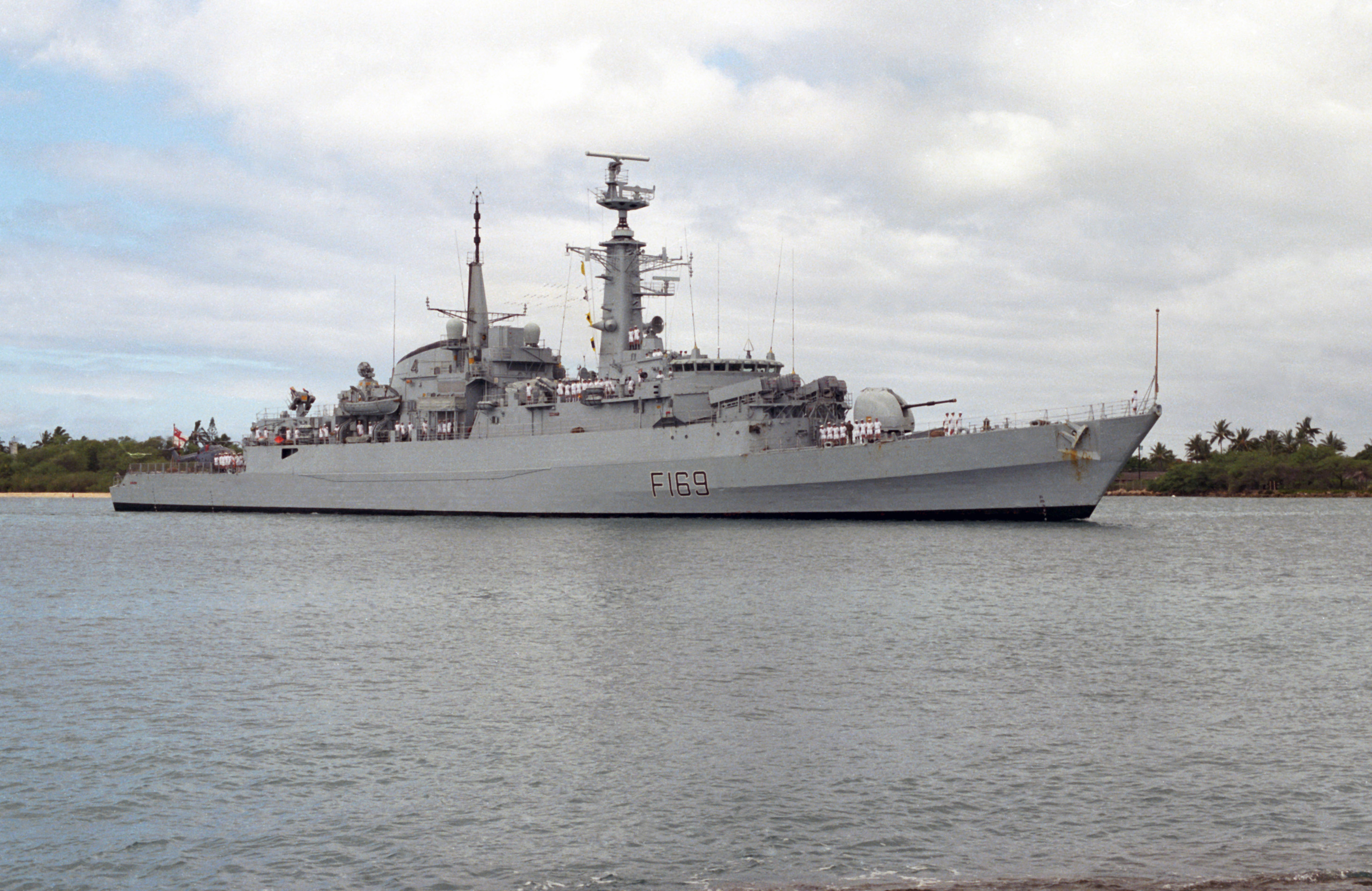 A starboard bow view of the British frigate HMS AMAZON (F 169) underway during Exercise RIMPAC '86.